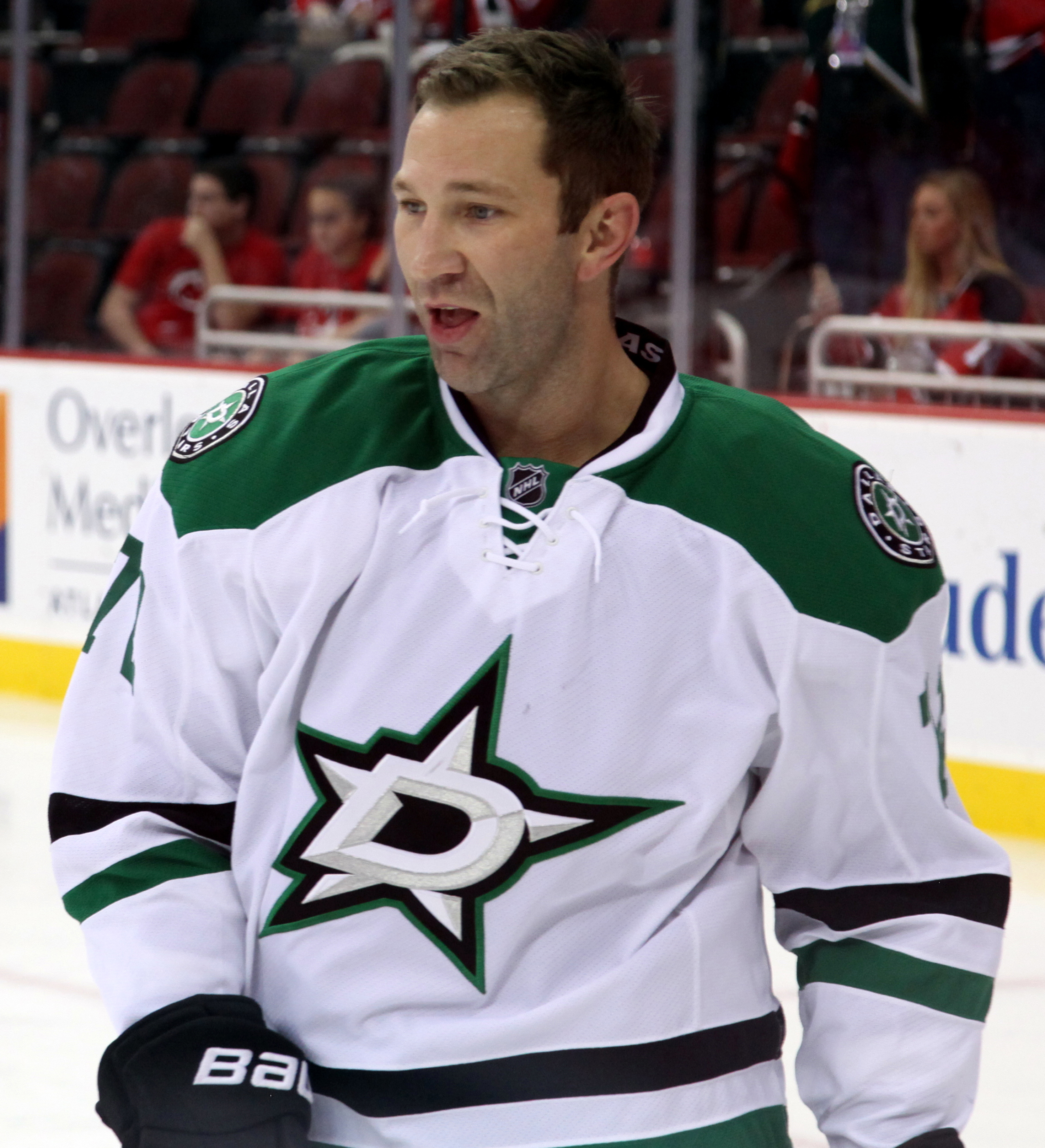 Cole playing for the Dallas Stars in October 2014.